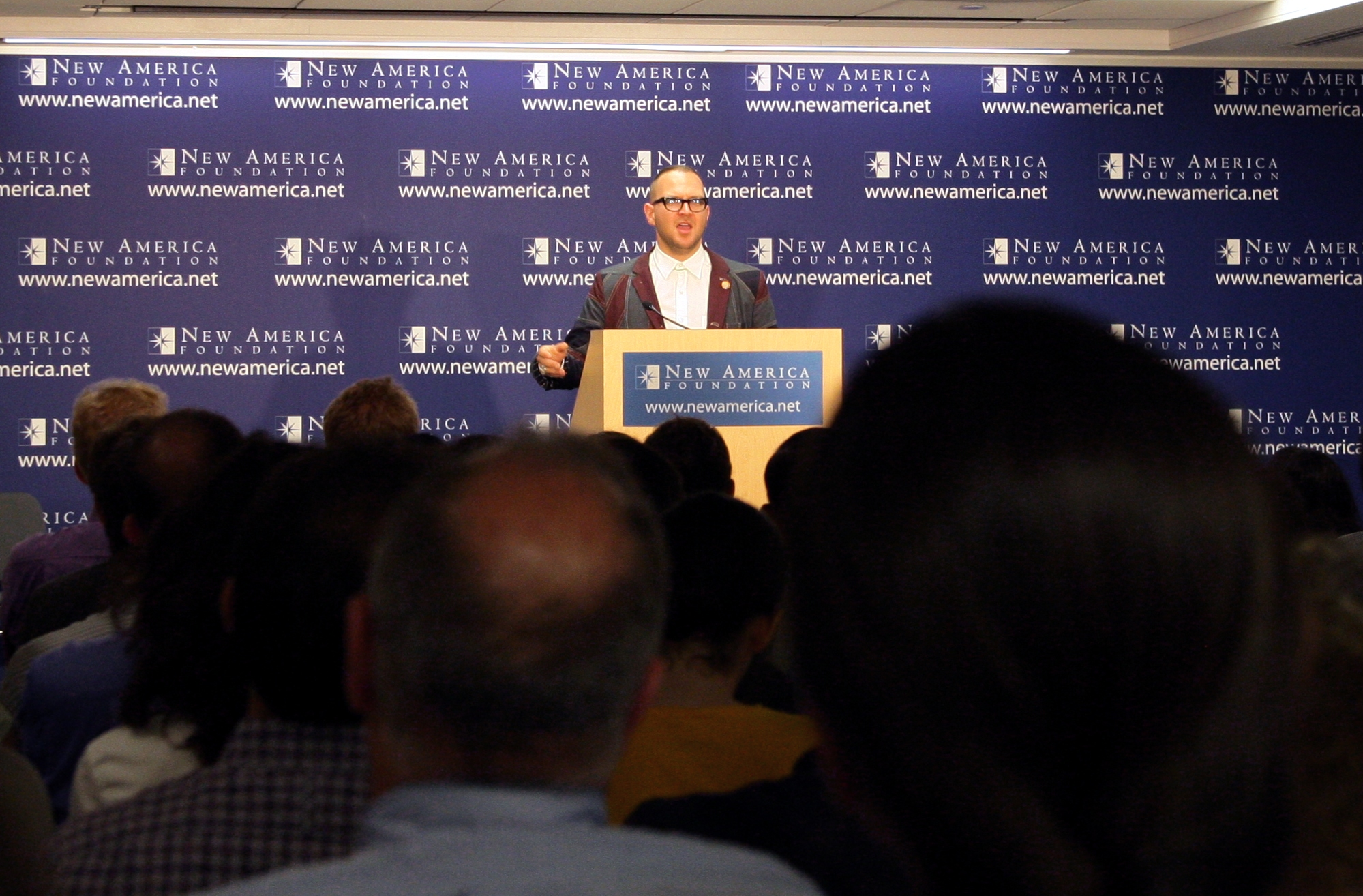 Cory Doctorow giving a talk at the New America Foundation, Washington, DC